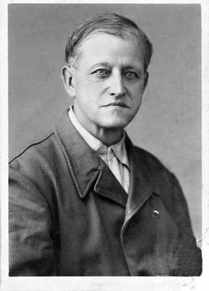 Václav Oukropec was Czech workers writer and poet